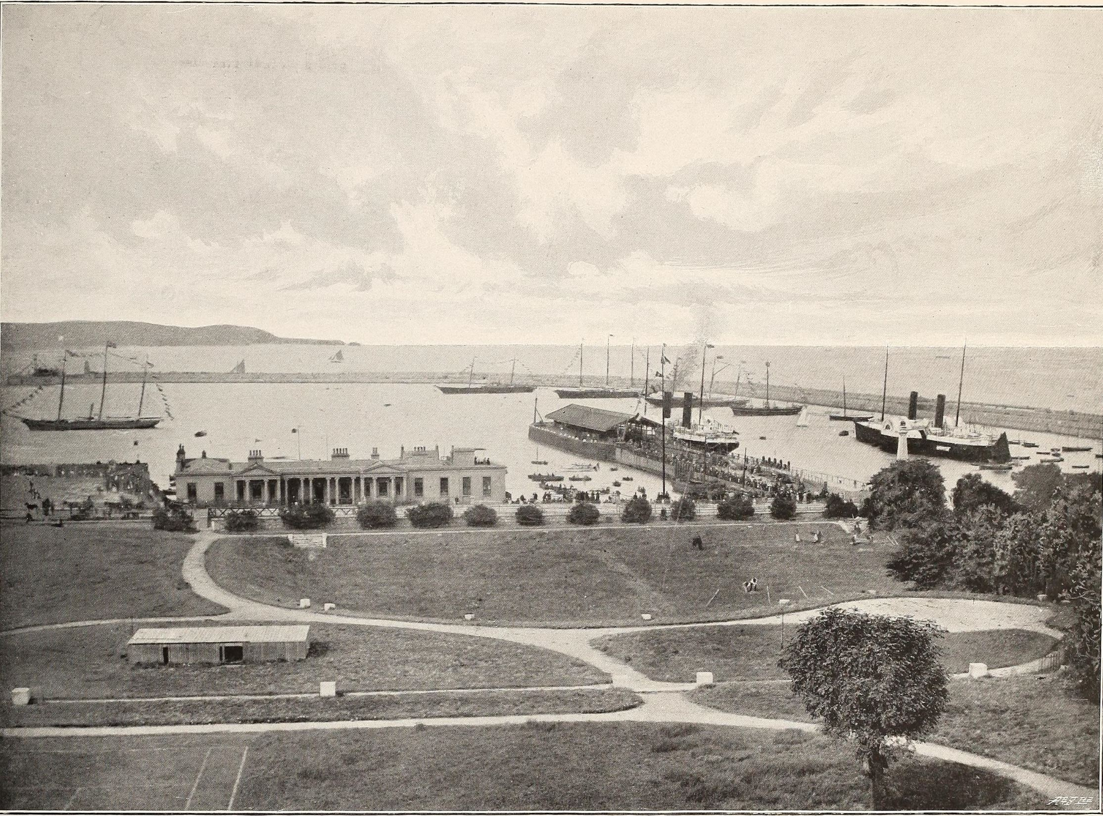 Published on in Sights and Scenes in Ireland (P.25) by Cassell and Company in reign of Queen Victoria to 1901 this photograph by George Clarendon, a photographer of Kingstown c1858 d 28 November 1924 Rathdown aged 66 (1901 census claims age 40) this show the East Pier, Carlisle Pier with the original engine shed and the view over the eastern half of the harbour with the view of Howth Head to the back.